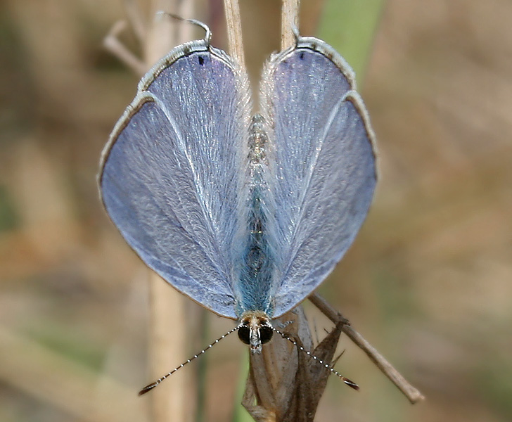 Forget-me-not Catachrysops strabo in Hyderabad, India.